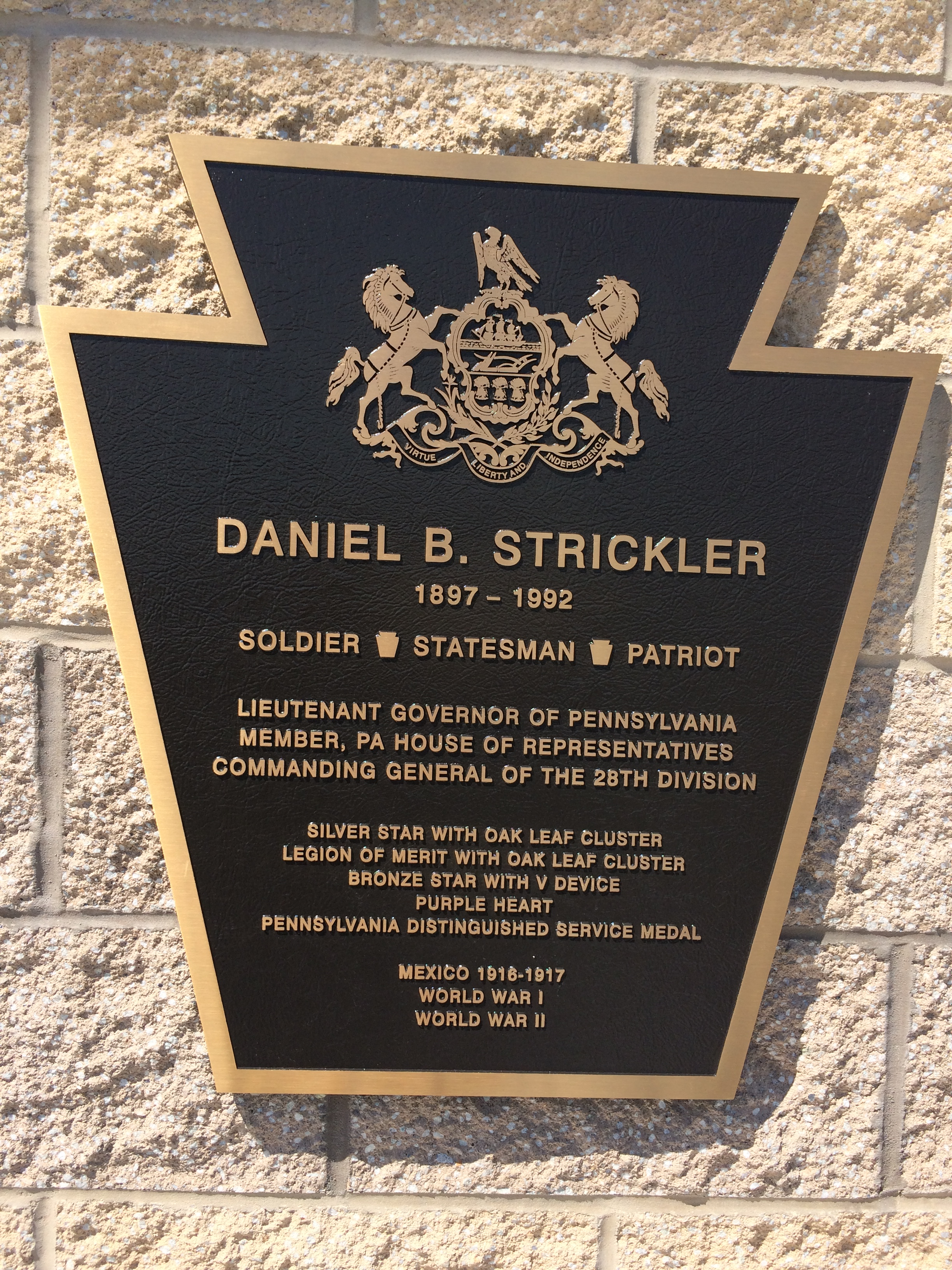 Grandstand plaque honoring General Daniel B. Strickler. Strickler Field, Ft. Indiantown Gap, PA